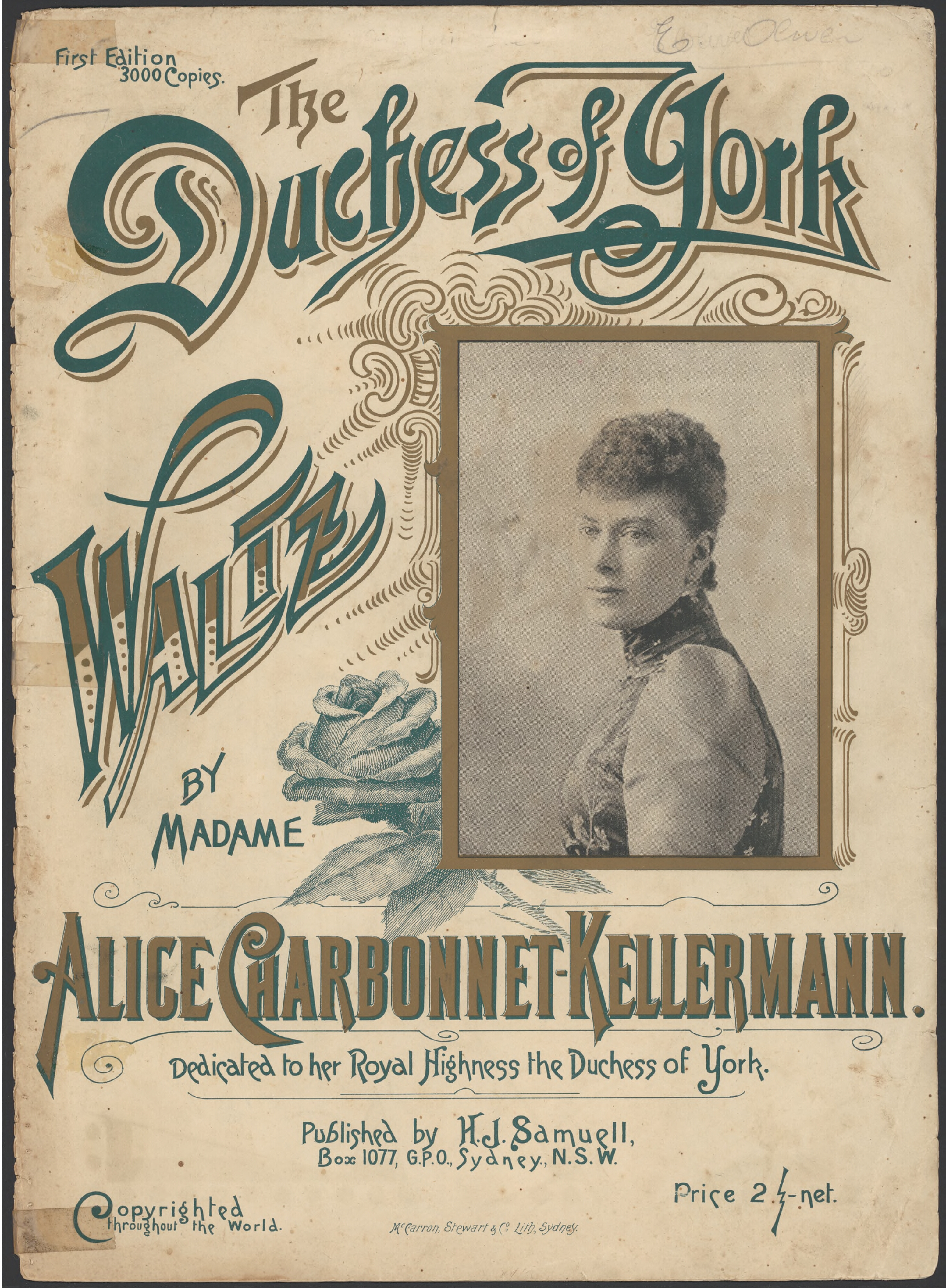 1897 cover art from "The Duchess of York"' by Australian composer Alice Charbonnet-Kellermann, published by H. J. Samuel, Box 1077, Sydney, New South Wales